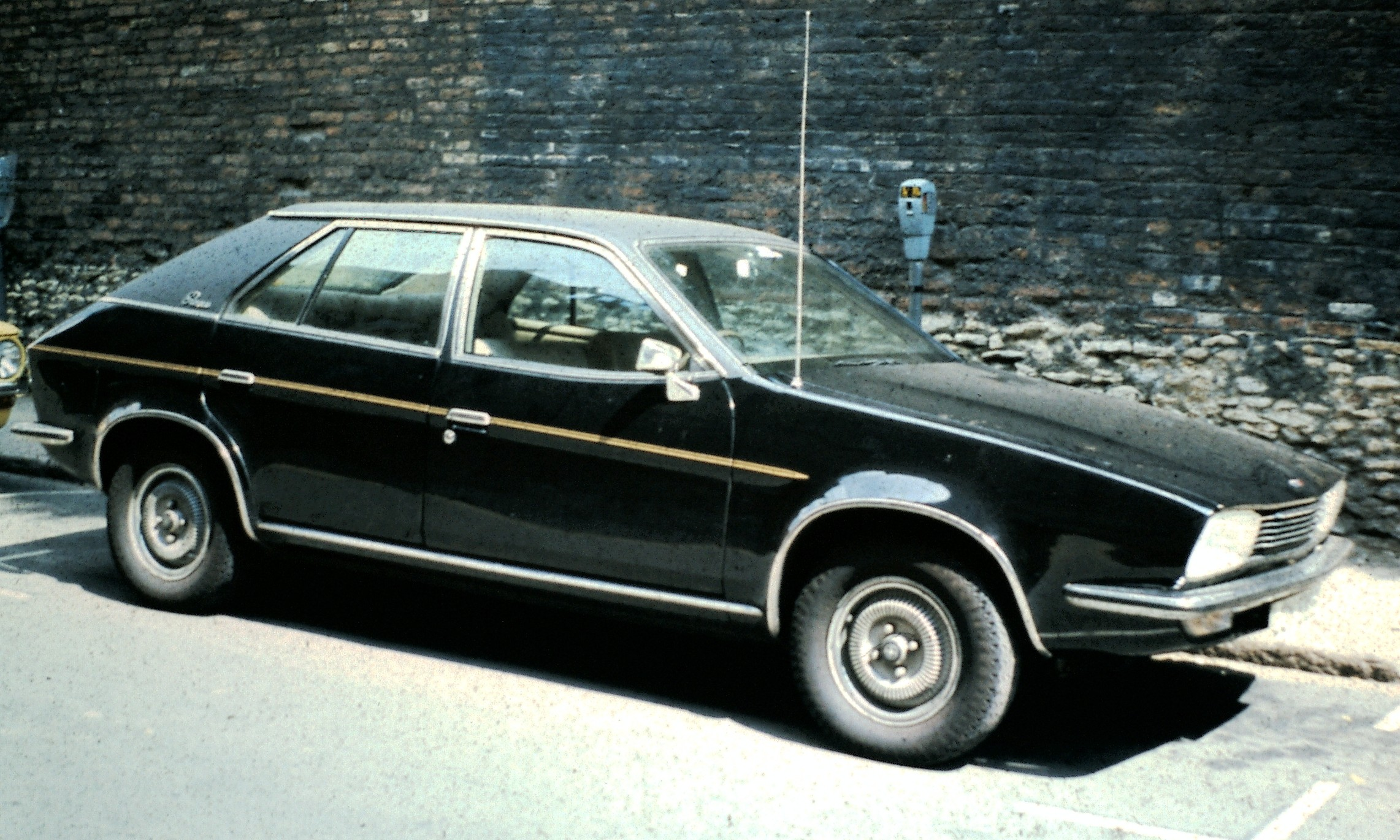 Leyland Princess